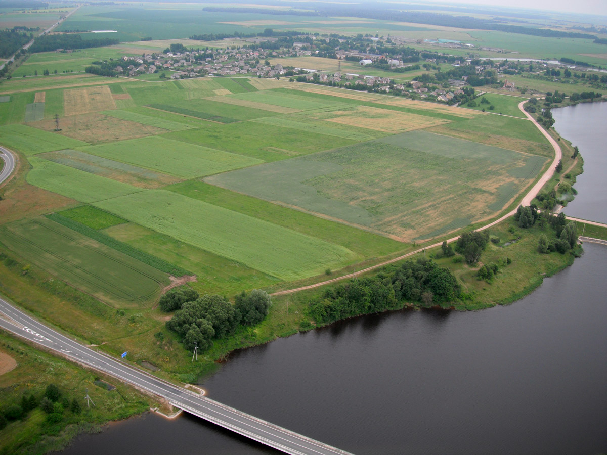 Aristava